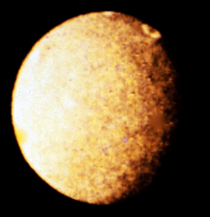 Original decscription: Voyager 2 image of Uranus' satellite Umbriel. Umbriel has the darkest surface and least contrast of the five large satellites of Uranus. Umbriel's surface is covered with impact craters, the bright ring at the top of the image is the 131 km diameter crater, Wunda, centered at 8 S, 274 E. Umbriel has a diameter of about 1170 km. This image was made using violet and clear filters. (Voyager 2, P-29502)